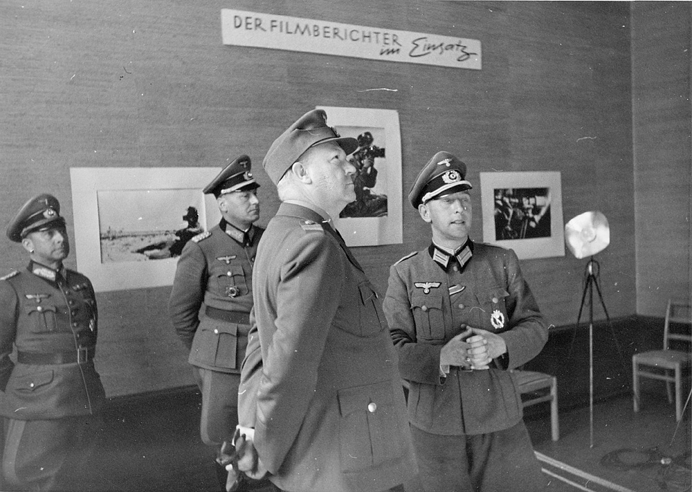 Quisling visits the German propaganda companies’ large exhibition ”War and Correspondent” in the National Gallery in Oslo on August 15th 1944. The exhibition was about German war reporters. The photo is from the exhibition hall for the army’s film reports. Archival reference: RAFA3309_34_1.